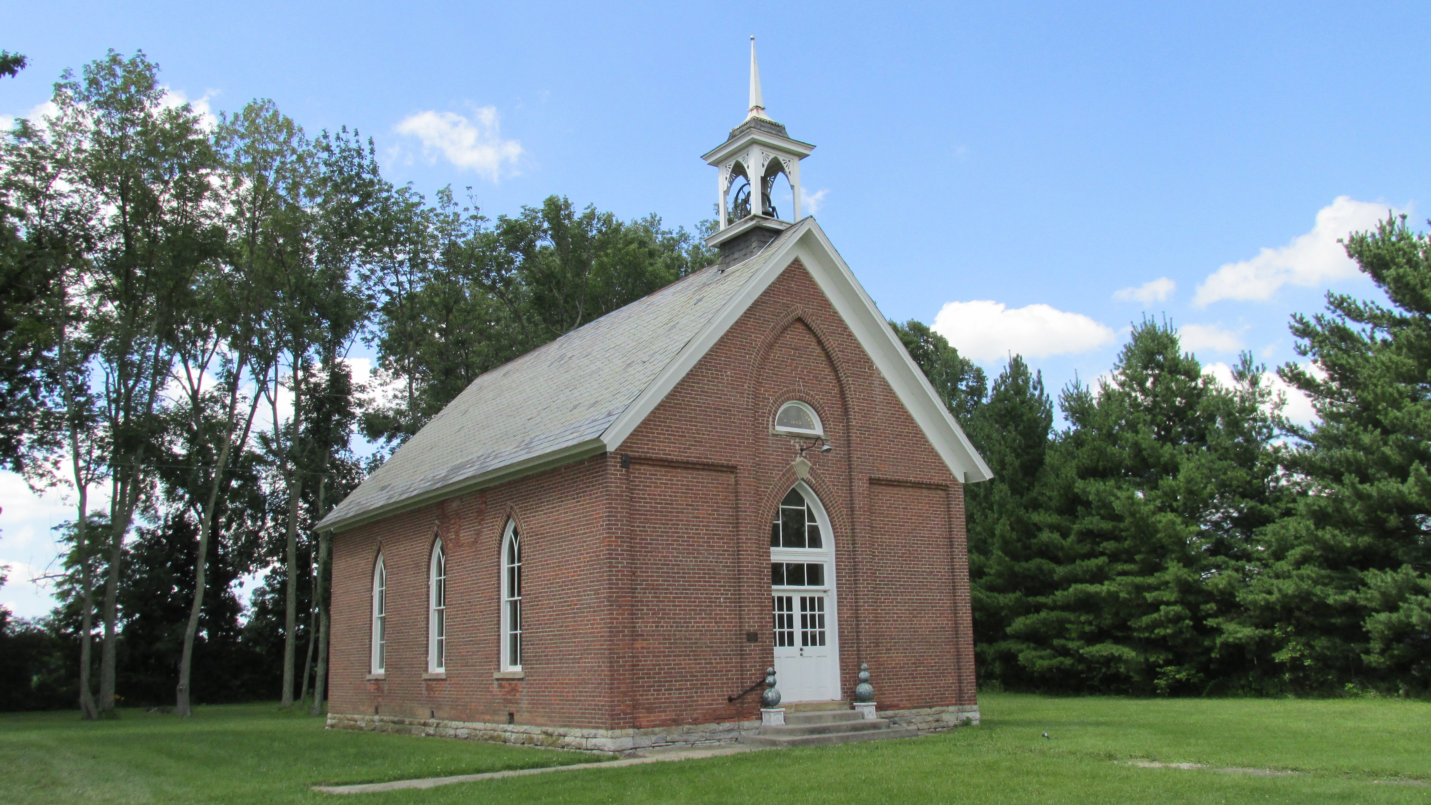 The Pansy Church located in Clinton County, Ohio.